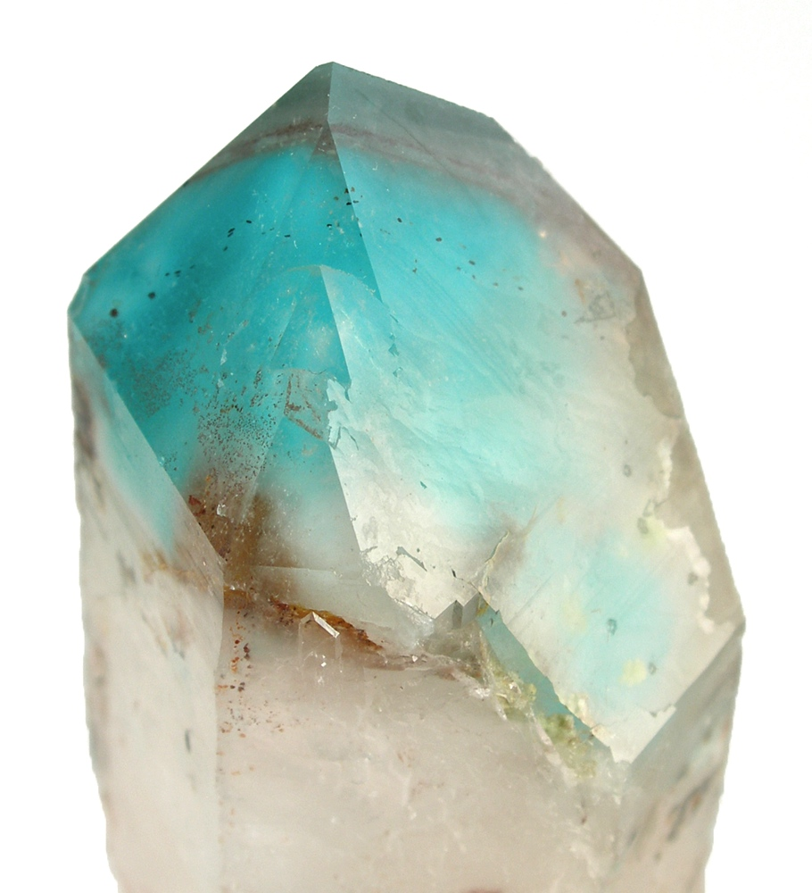 Ajoite, Quartz Locality: Messina mine, Messina District, Limpopo Province, South Africa (Locality at ) Size: small cabinet, 6.9 x 3.4 x 2.5 cm Ajoite included in Quartz (phantom) This is a razor-sharp crystal with a termination so sharp you can literally cut yourself on it. The quartz hosts an internal phantom generation of quartz, that is richly included by powder blue ajoite. Now, often the inclusions are dispersed in the quartz , but seldom do you see a phantom within, concentrating the color as this one does. The crystal is complete all around, and shows extraordinary clarity looking through to the phantom zone within. I have seen literally hundreds of these, and in this size range, few have stood out to me as starkly as this piece, which I saw at the Munich show with a direct source. Moreover, it is complete and sharp, and shows off the inclusions without need of polishing. It really is one of the sharpest and finest in its size class. After cleaning, we found that it is technically a floater - rough at the bottom, but microcrystallized and complete.